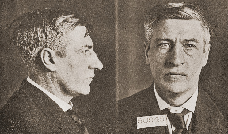 Jim Larkin, Irish socialist leader. November 8, 1919 mug shot taken at time of his arrest for "criminal anarchism" in New York state.